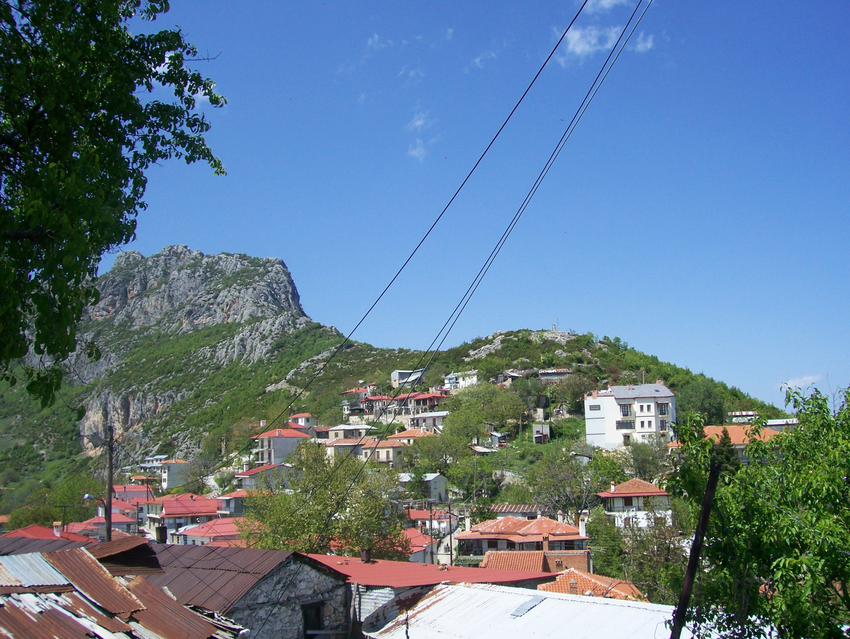 Cave in Grevena, Greece